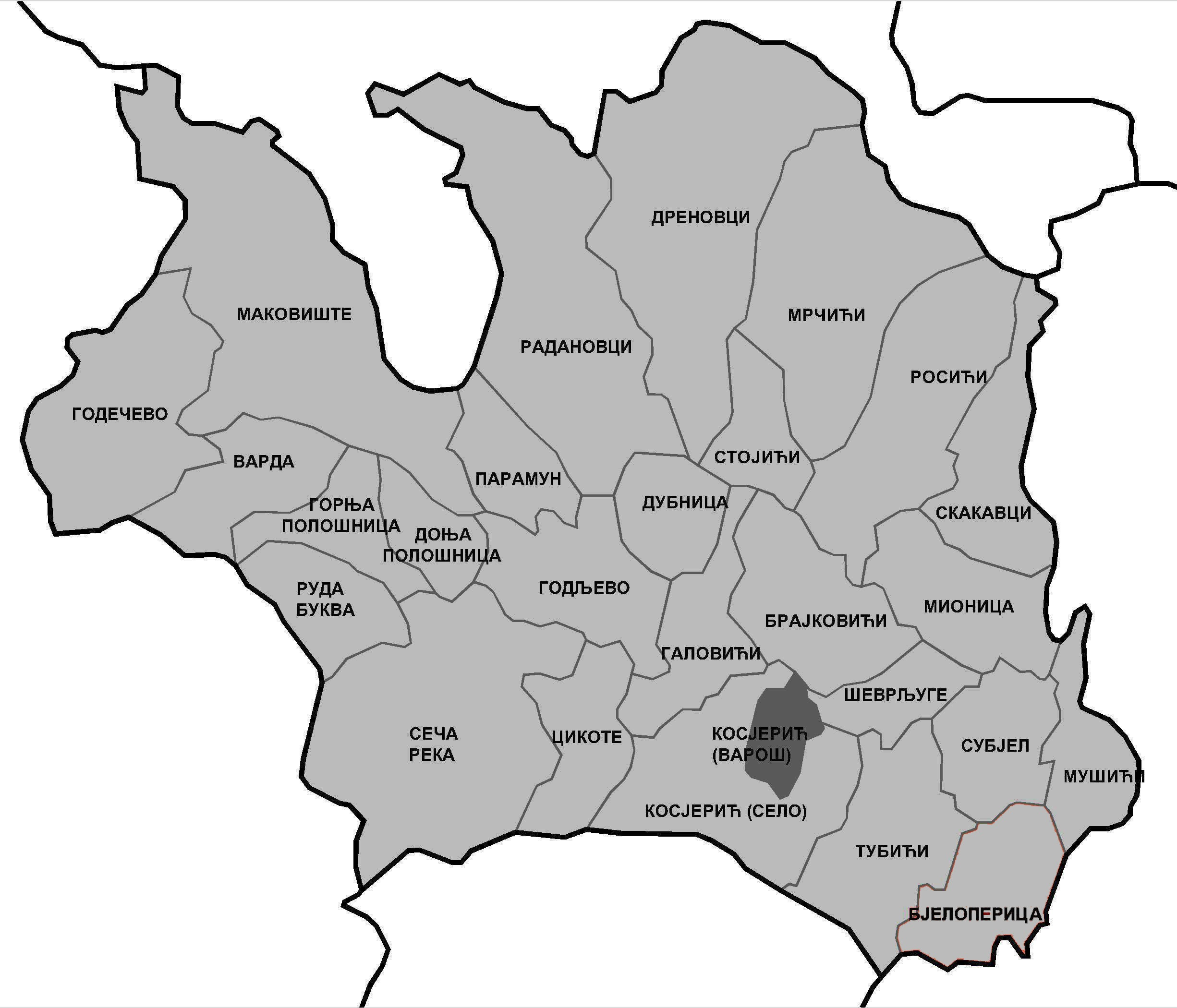 Kosjerić Municipality